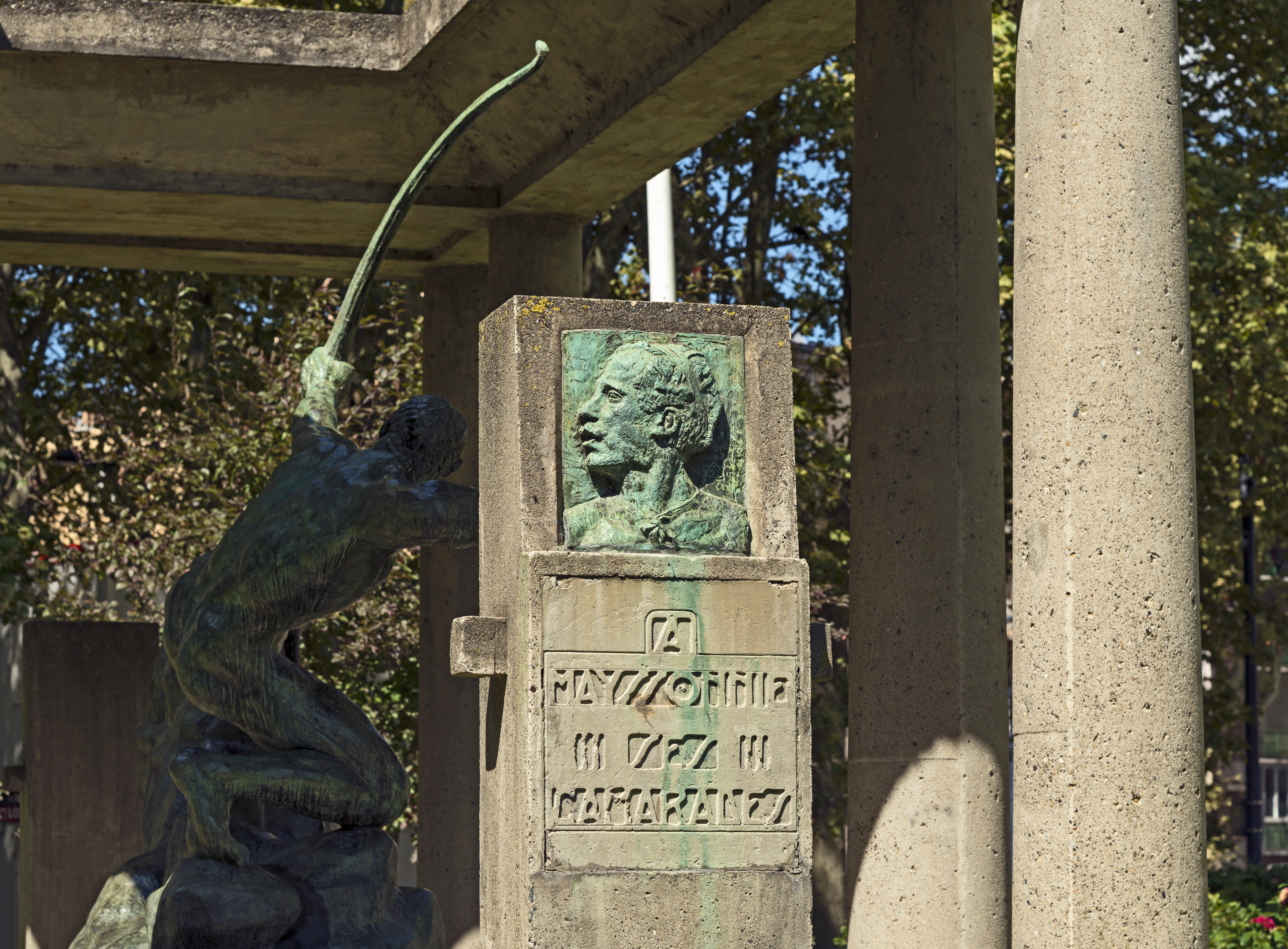 "Hercules the Archer" by Antoine Bourdelle. Monument to the memory of Alfred Mayssonie, Toulouse. Directed in 1922 by Bourdelle erected in 1925.